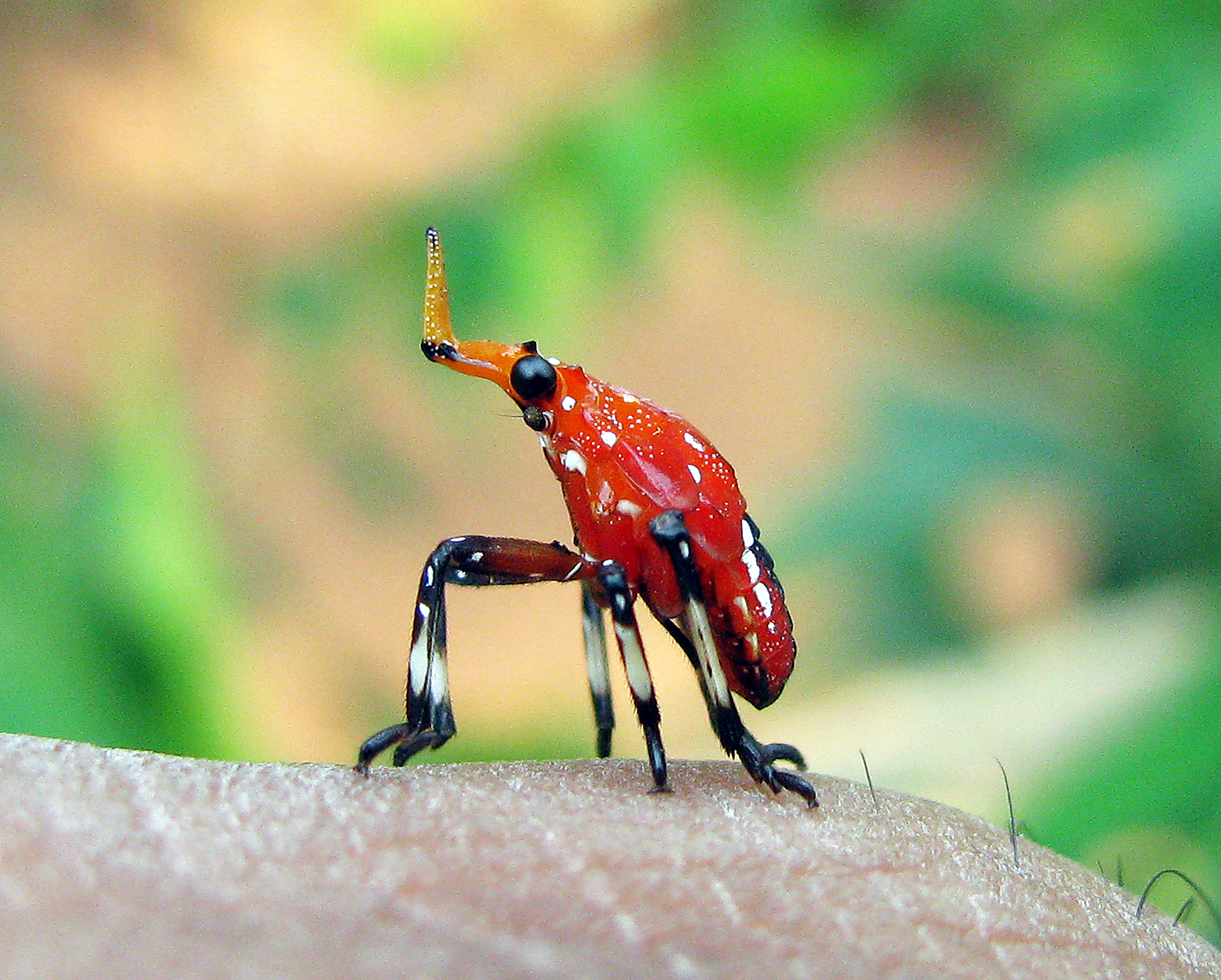 A strange red insect, misidentified as Epiptera europea; the specimen is immature, a nymph. Family Fulgoridae. Note the characteristic arista on the short antenna